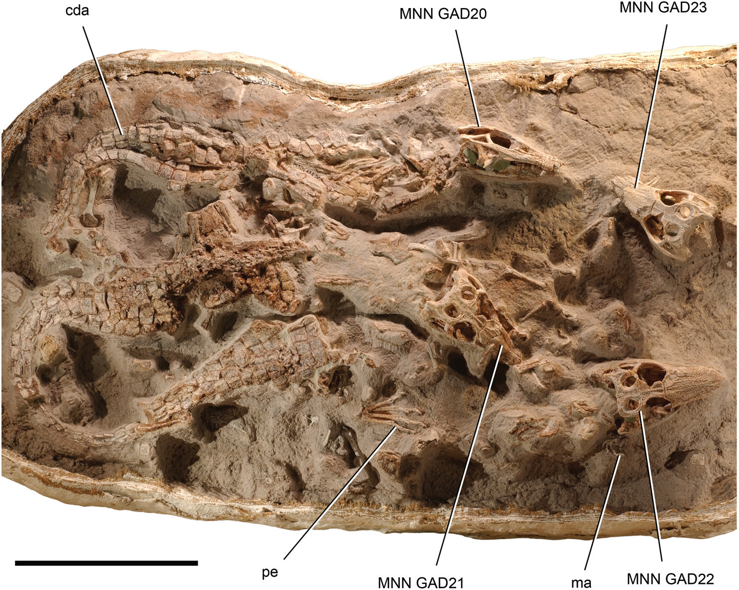 Block containing skeletons of the crocodyliform Araripesuchus wegeneri. Th ree aligned and partially articulated skeletons (MNN GAD20–22) and a partial skull (MNN GAD23) in dorsal view. Weathered portions of the crania were restored based on MNN GAD19. Scale bar equals 20 cm. Abbreviations: cda, caudal dermal armor; ma, manus; pe, pes.